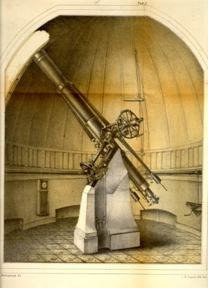 Østervold Observatory